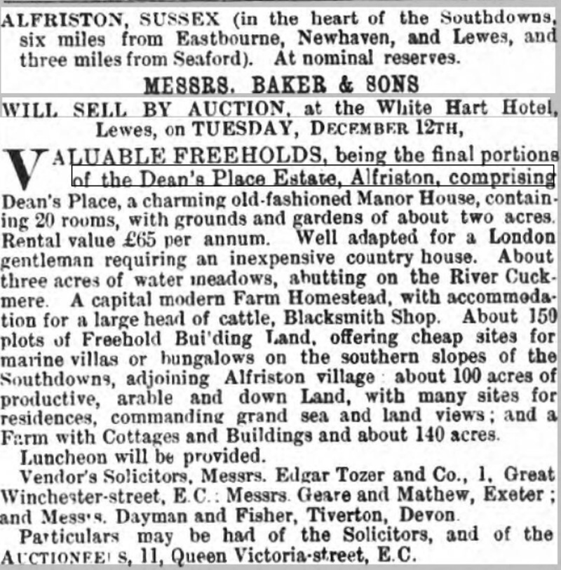 Sale notice for Dean's Place Alfriston 1893